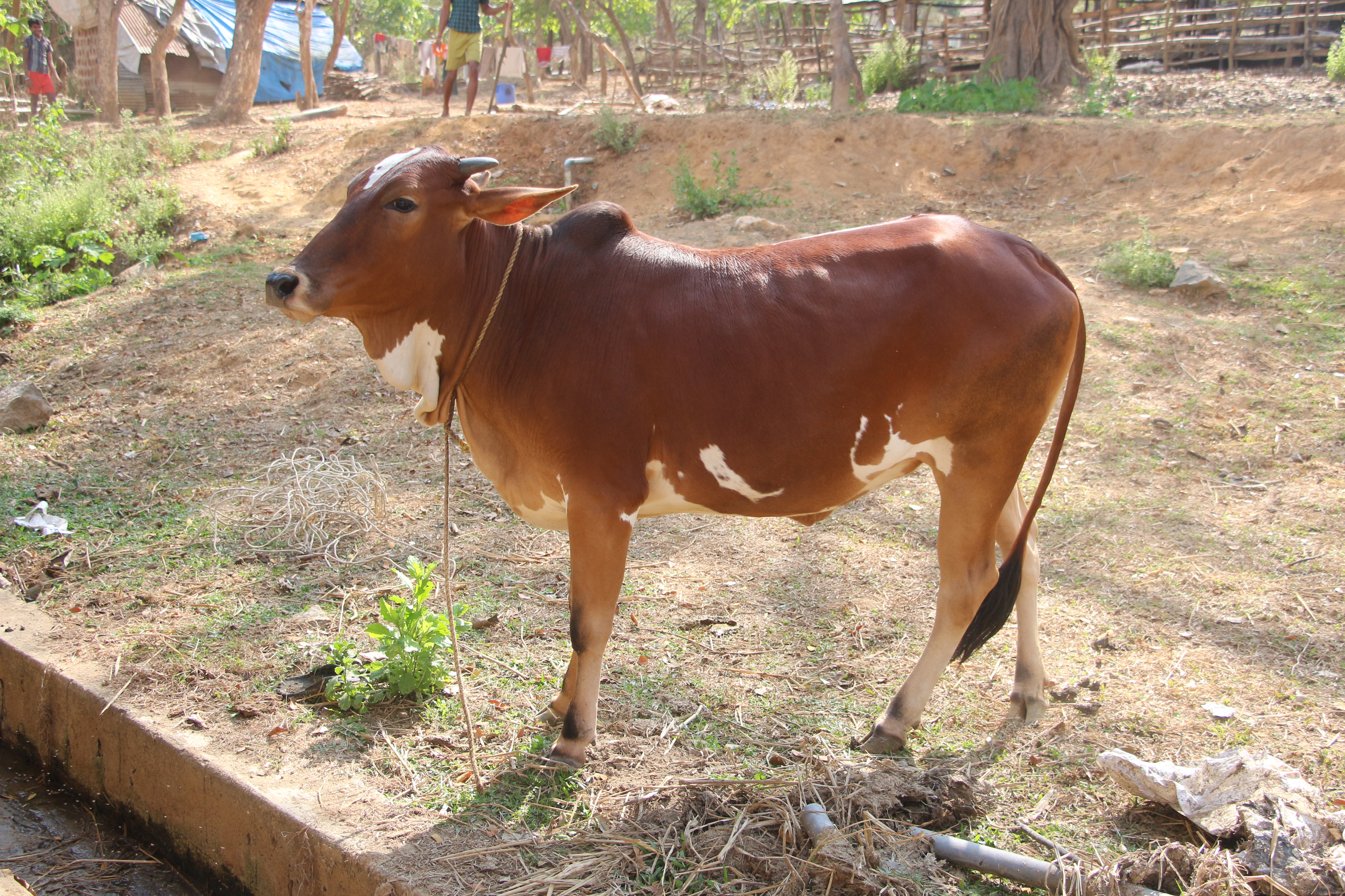 Indian cow breed Nimariಕನ್ನಡ: ಭಾರತೀಯ ಗೋತಳಿ ನಿಮಾರಿ